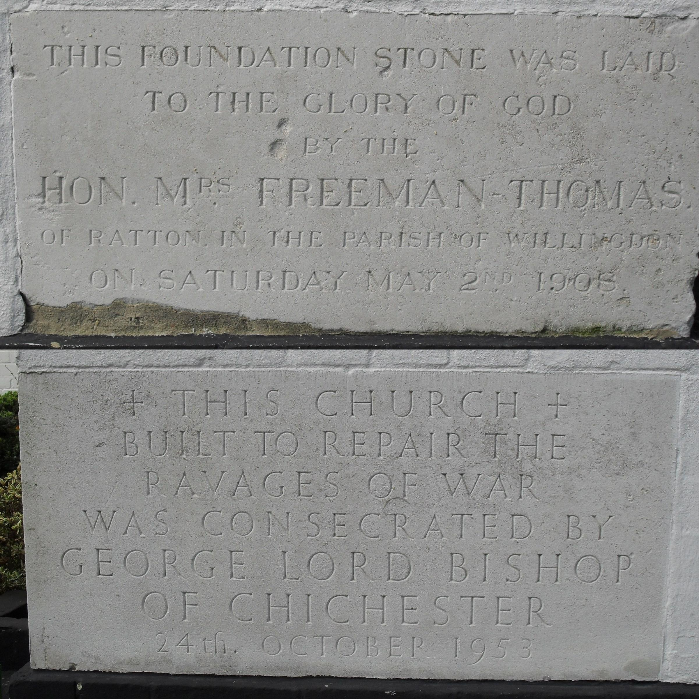 Foundation stones for the original (1908) and new (1954) St Mary's Churches at Decoy Drive, Hampden Park, Eastbourne, East Sussex, England. Composite image.